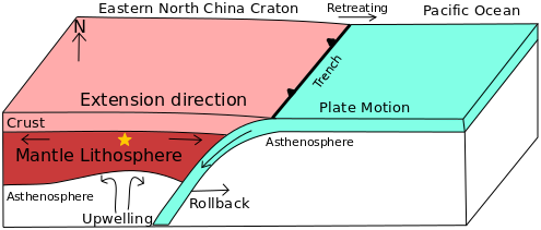 describes one of the model of how the lithosphere in the North China Craton is thinned in the Phanerozoic.